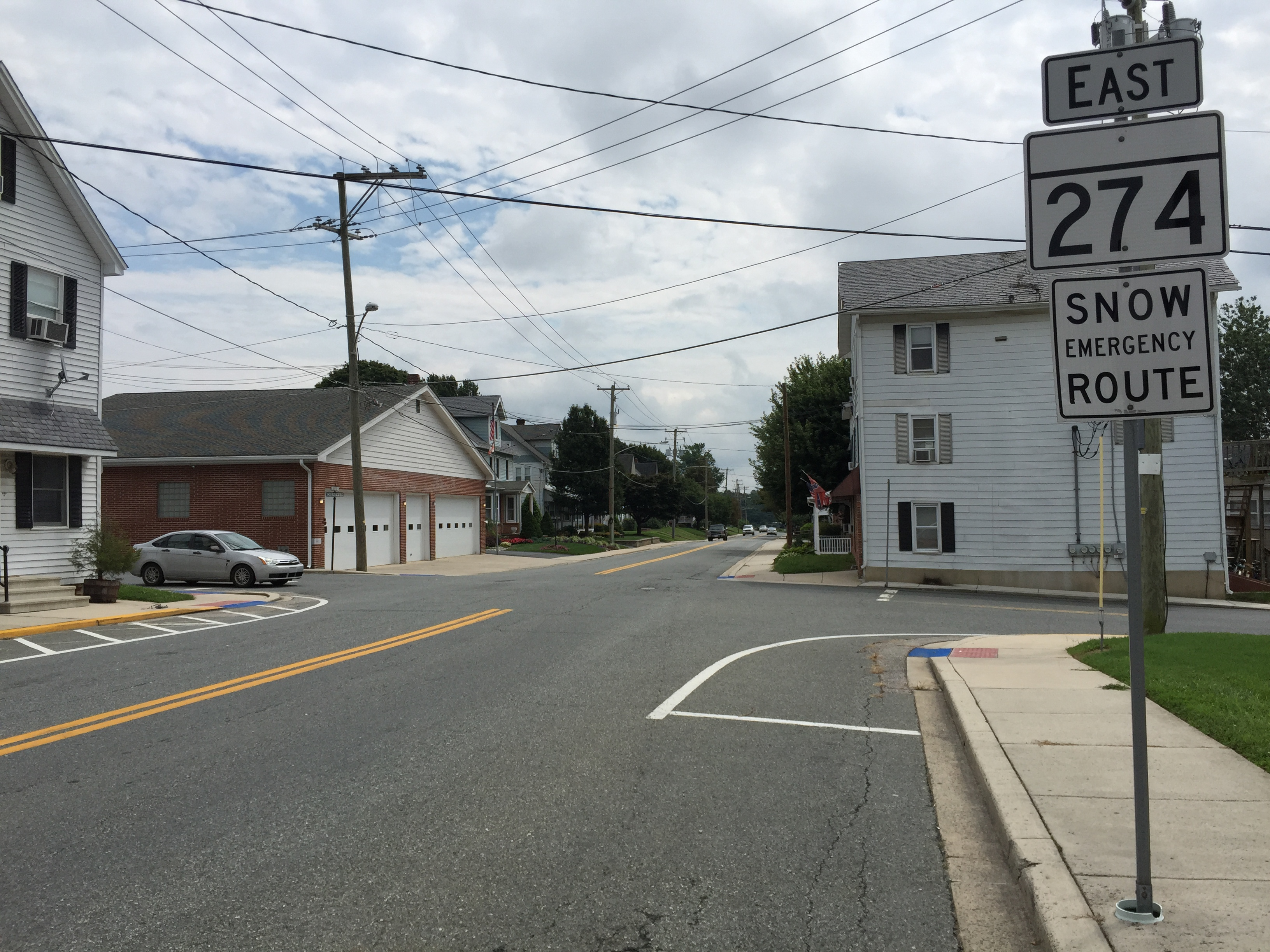 View east along Maryland State Route 274 (Queen Street) at Cherry Street in Rising Sun, Cecil County, Maryland